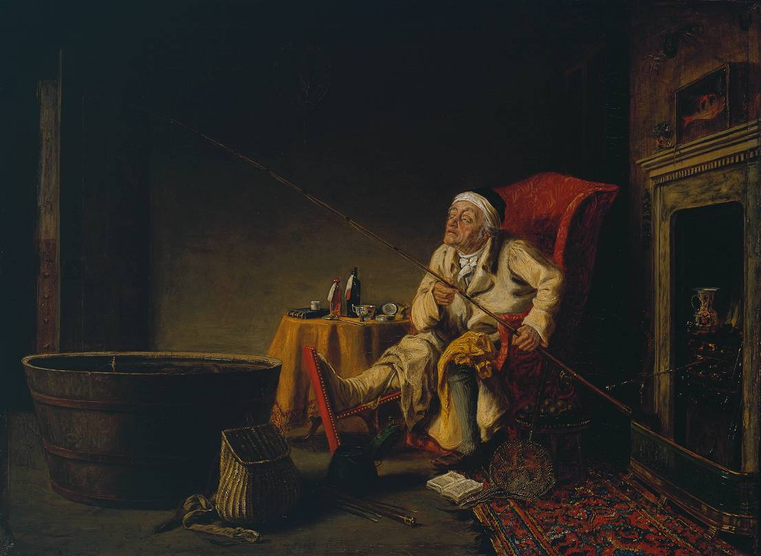 Enthusiast ('The Gouty Angler'), humorous painting.